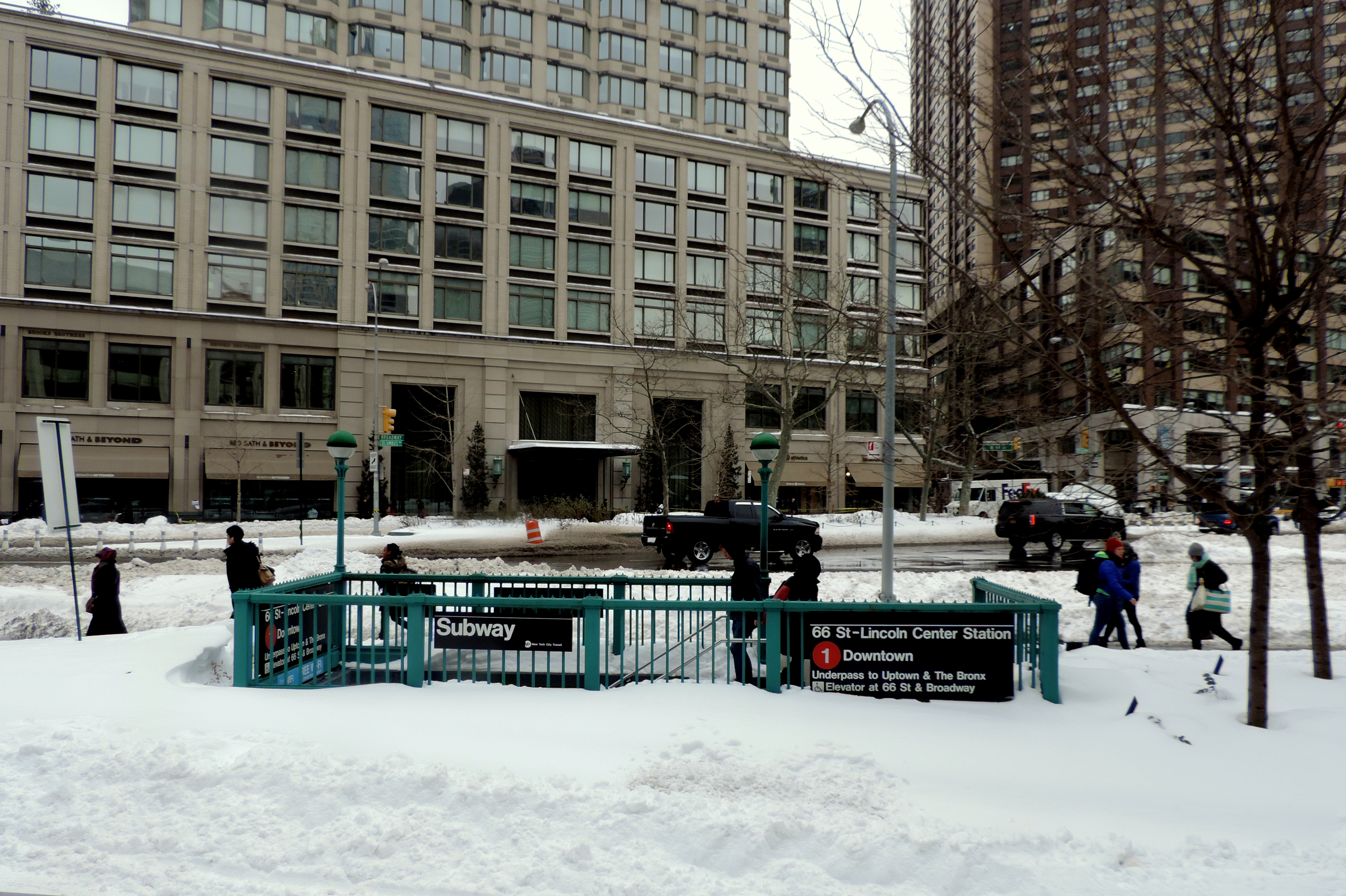 Looking east from Lincoln Center steps at W66 IRT station after 2016-01 snowstorm